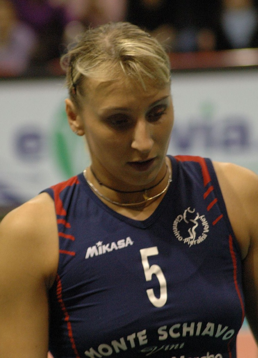 Russian volleyball player Lioubov Kılıç